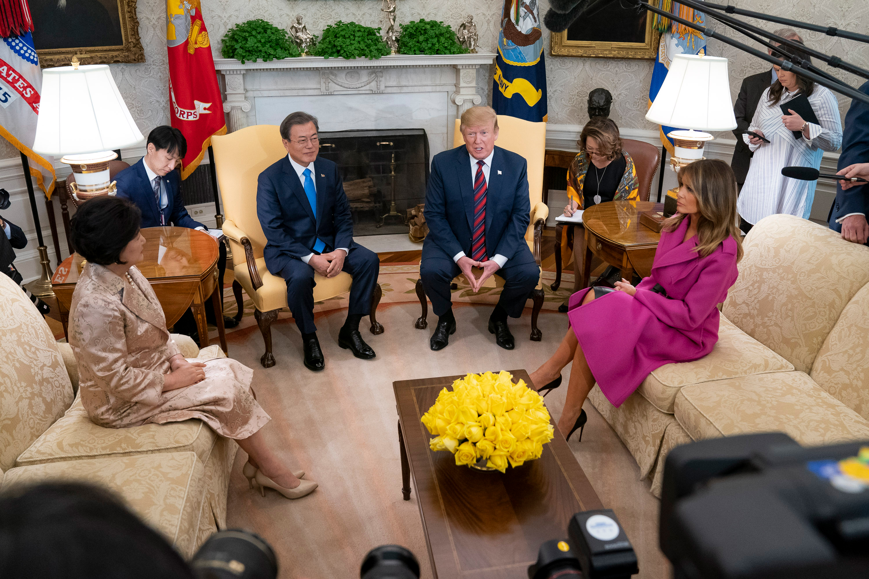 President Donald J. Trump and First Lady Melania Trump welcome President Moon Jae-in and Mrs. Kim Jung-sook of the Republic of Korea to the White House Thursday, April 11, 2019 (Official White House Photo by Andrea Hanks)